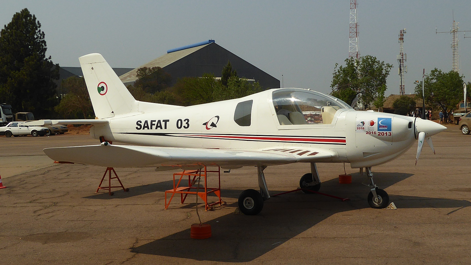 At the Africa Aerospace & Defence Show (AAD), Air Force Base Waterkloof, South Africa